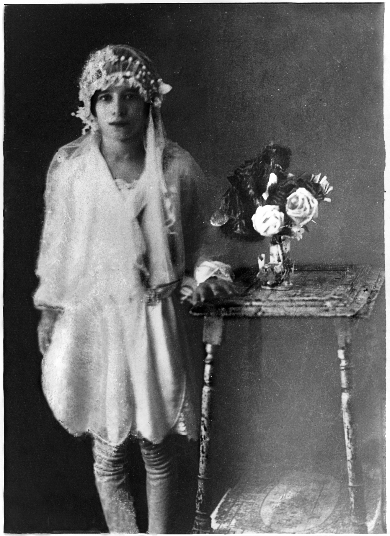 Maddalena Cerasuolo wearing dress for First Communion celebration, in the 20ies, Naples.